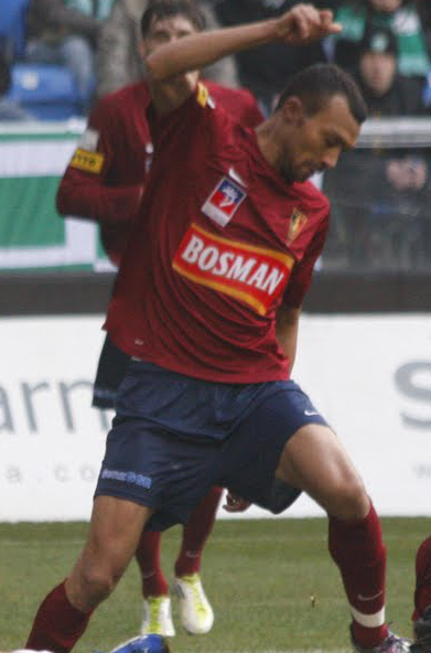 Emil Noll, player of Pogoń Szczecin.